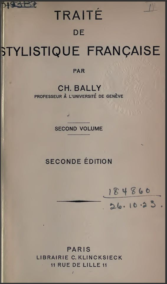 Traité de stylistique française di Charles Bally